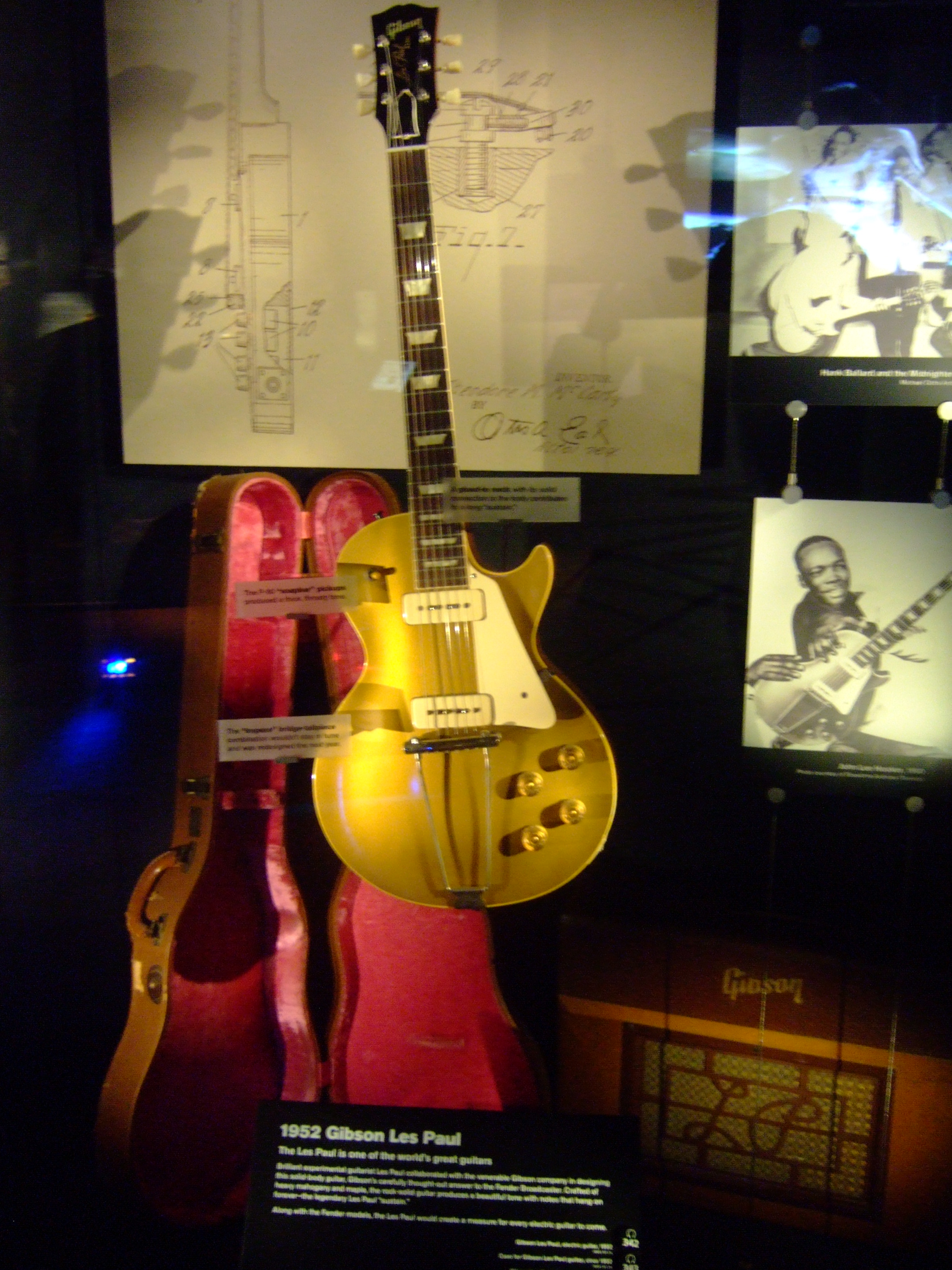 Experience Music Project/Science Fiction Hall of Fame, Seattle.